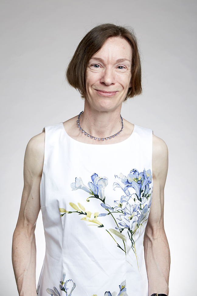 Anne Jacqueline Ridley (born 1963) FRS FMedSci is professor of Cell Biology in the Randall Division of Cell and Molecular Biophysics at King's College London. Attribution: The Royal Society